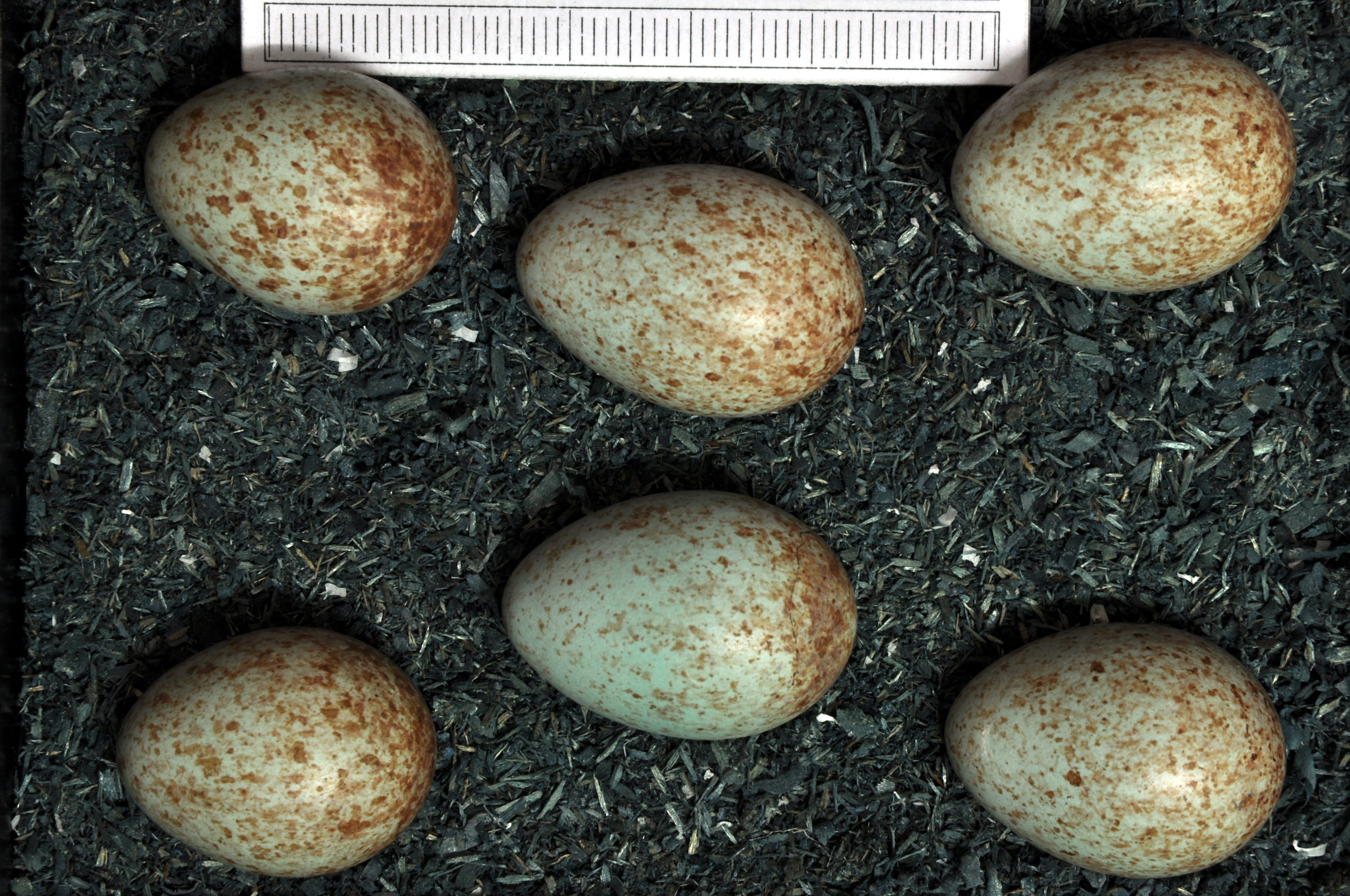 Fieldfare Turdus pilaris, egg, Coll. Museum Wiesbaden, Origin: Ismaning, Bavaria, 12.05.1972, leg. W. Abelmann